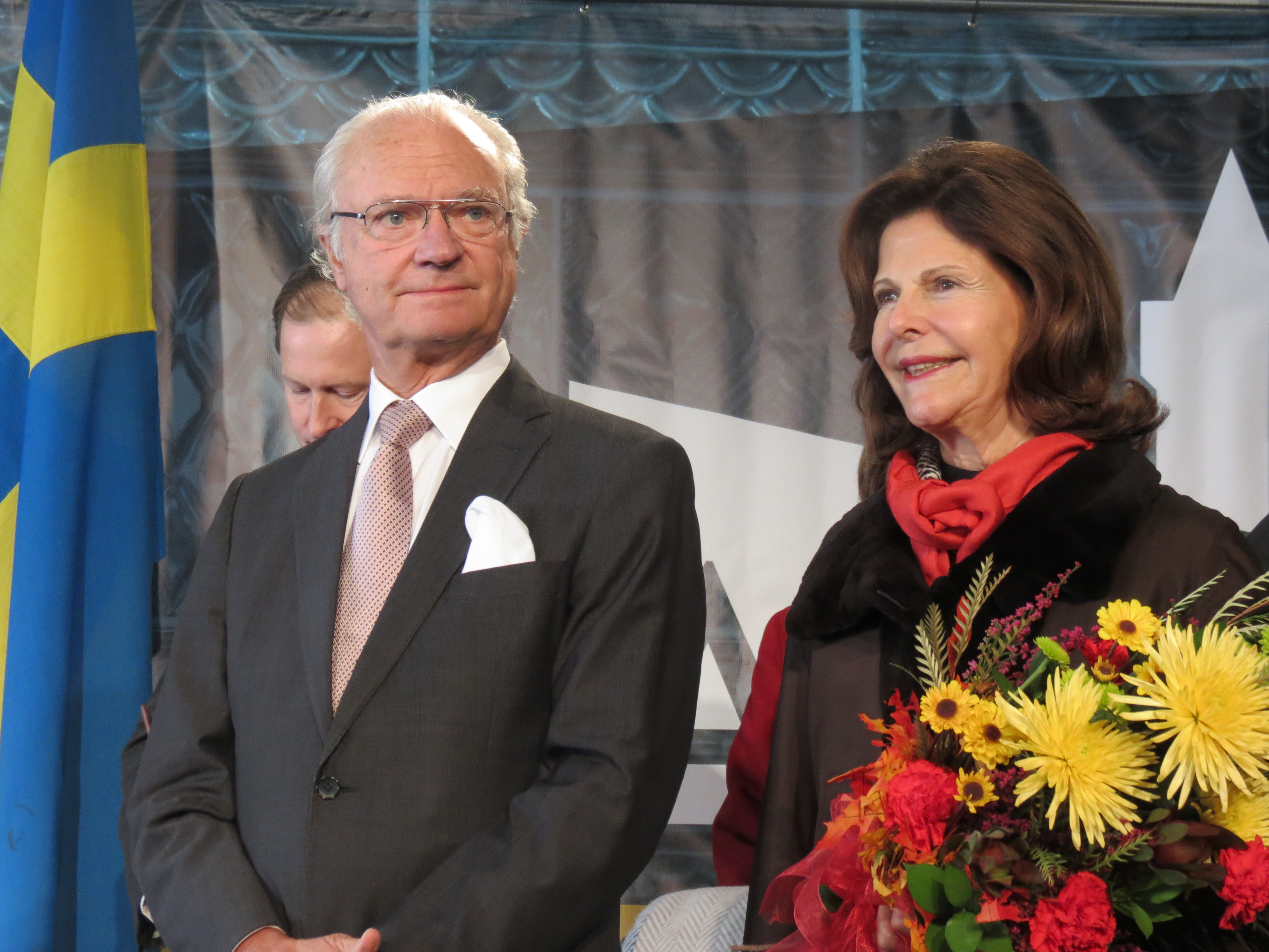 Carl XVI Gustaf of Sweden, Queen Silvia of Sweden Celebration of the Gustavus Adolphus College's 150th anniversary